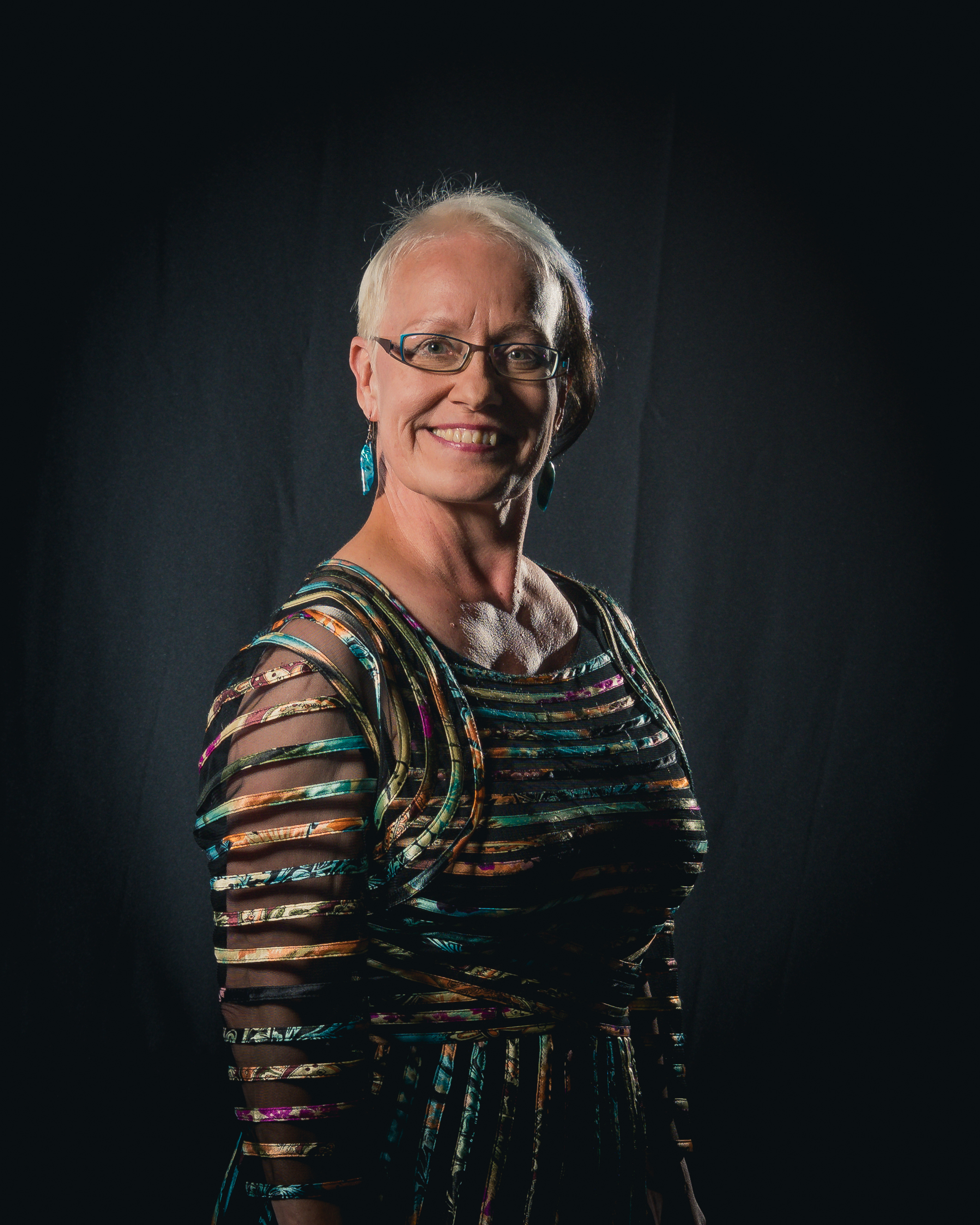 Portrait photoshoot at Worldcon 75, Helsinki, before the Hugo Awards: Johanna Sinisalo